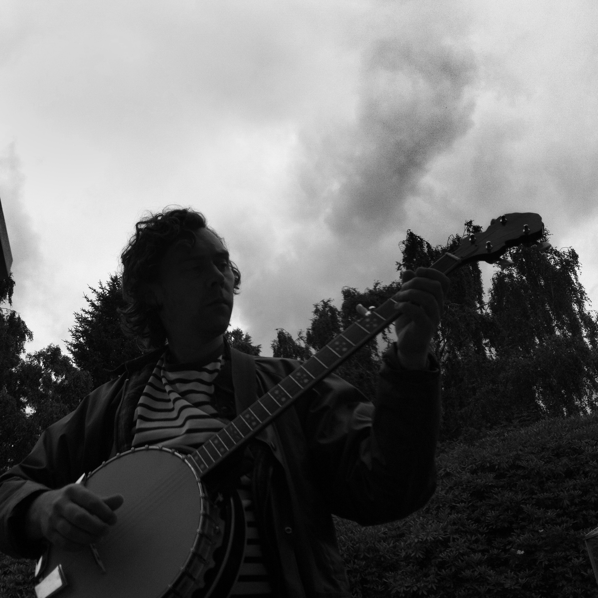 Andreas Bertilsson